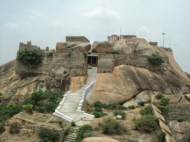 Fort Top